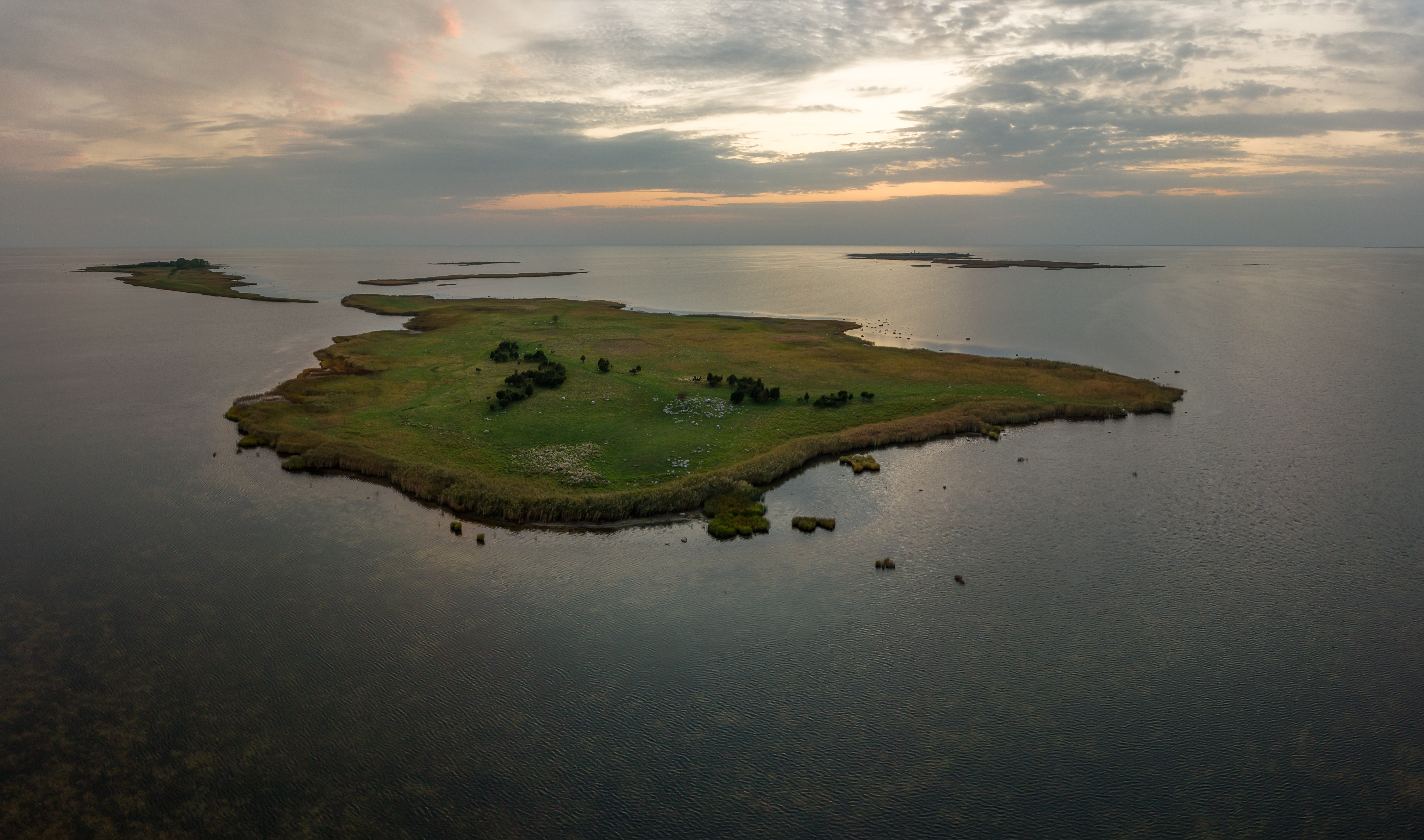 Kitselaid, Varbla laiud